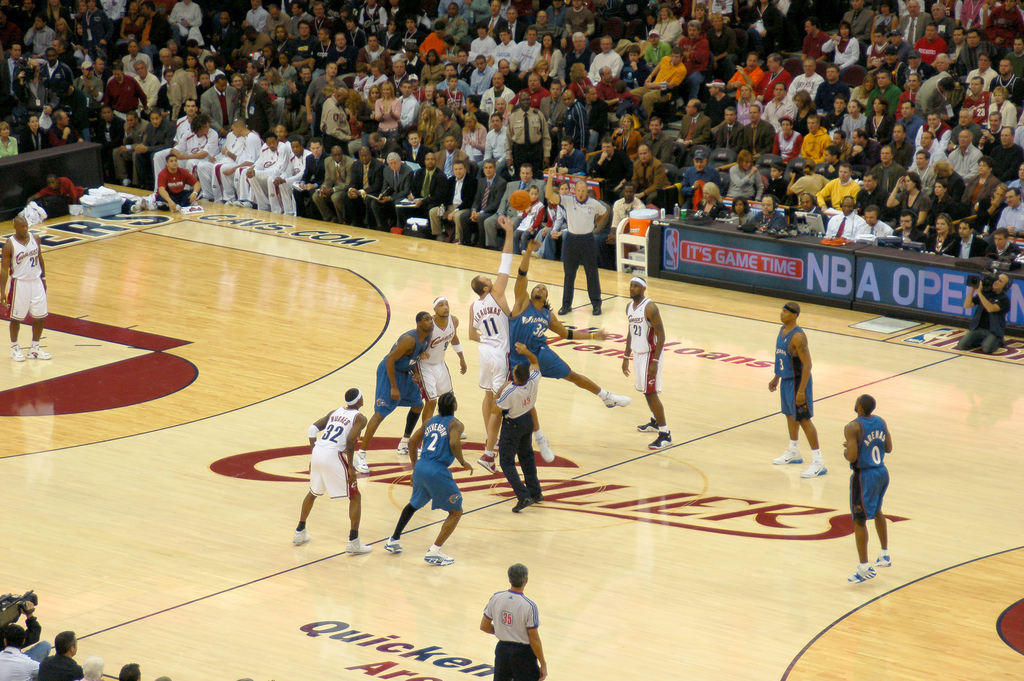 jump ball at the Cleveland Cavaliers' 2006 opening night